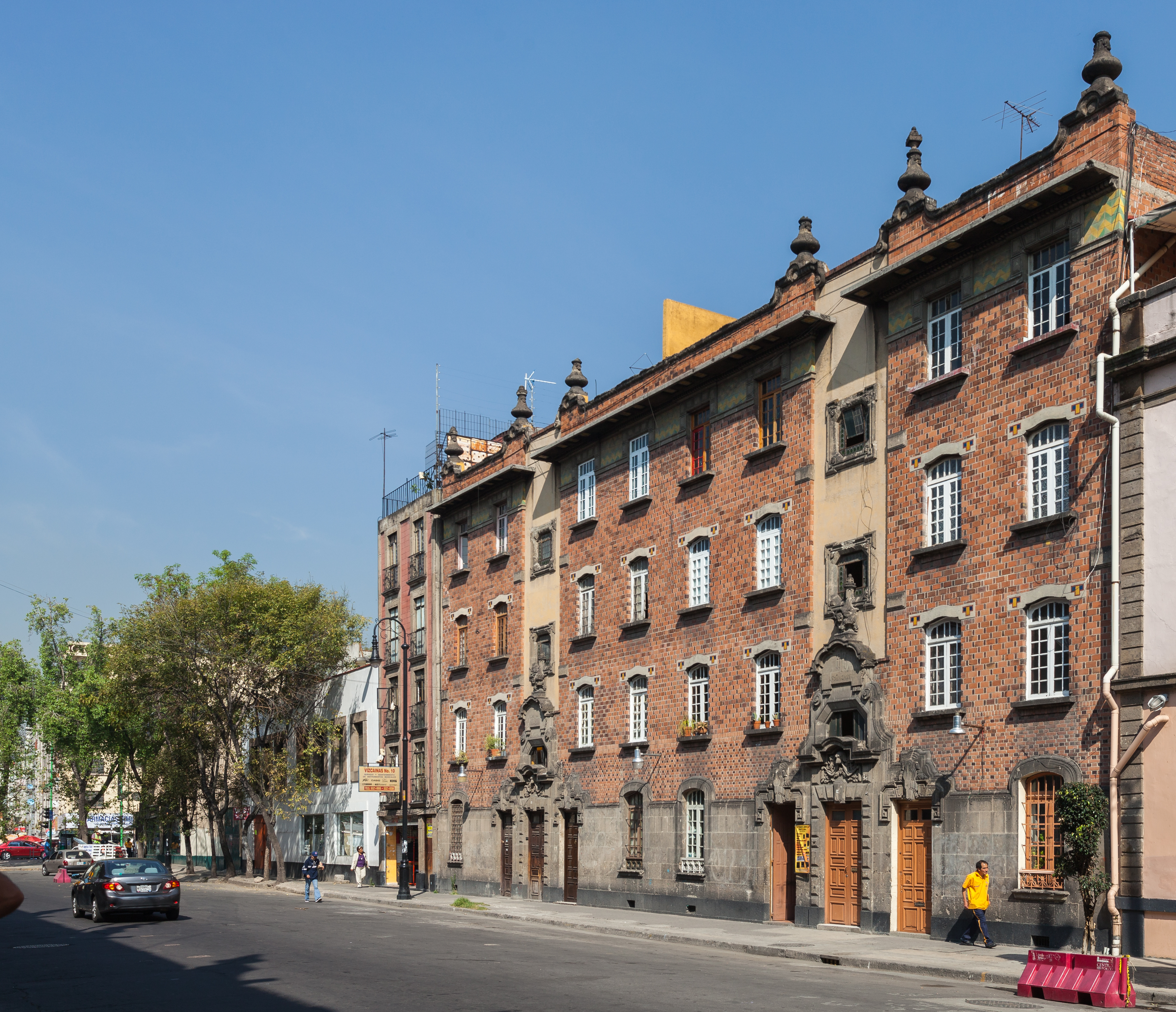 Colonial house in Vizcaínas St, Mexico City, Mexico